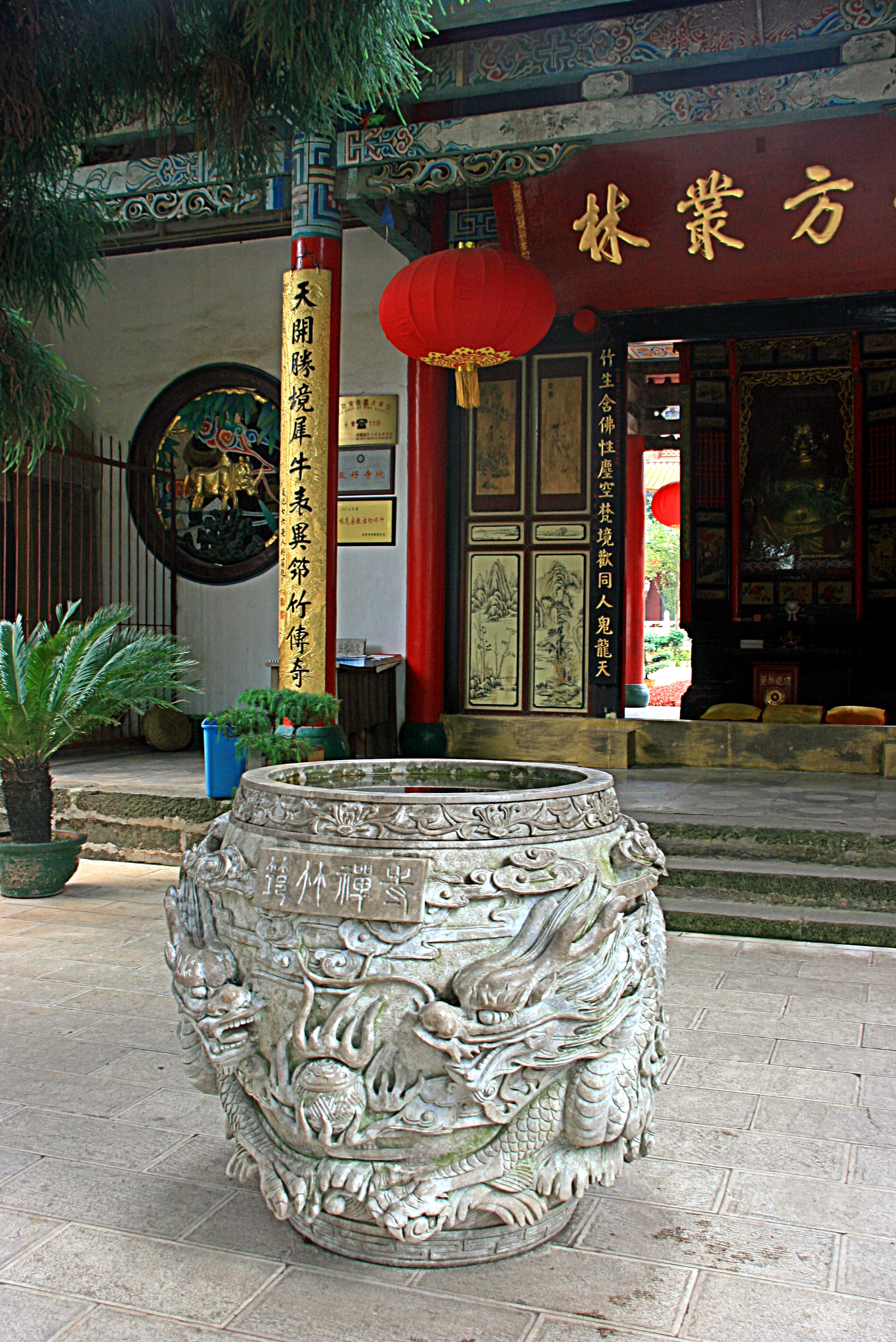 Photograph of a stone vessel in the yard of the Qiongzhu Temple, northwest of Kunming, Yunnan Province, China.